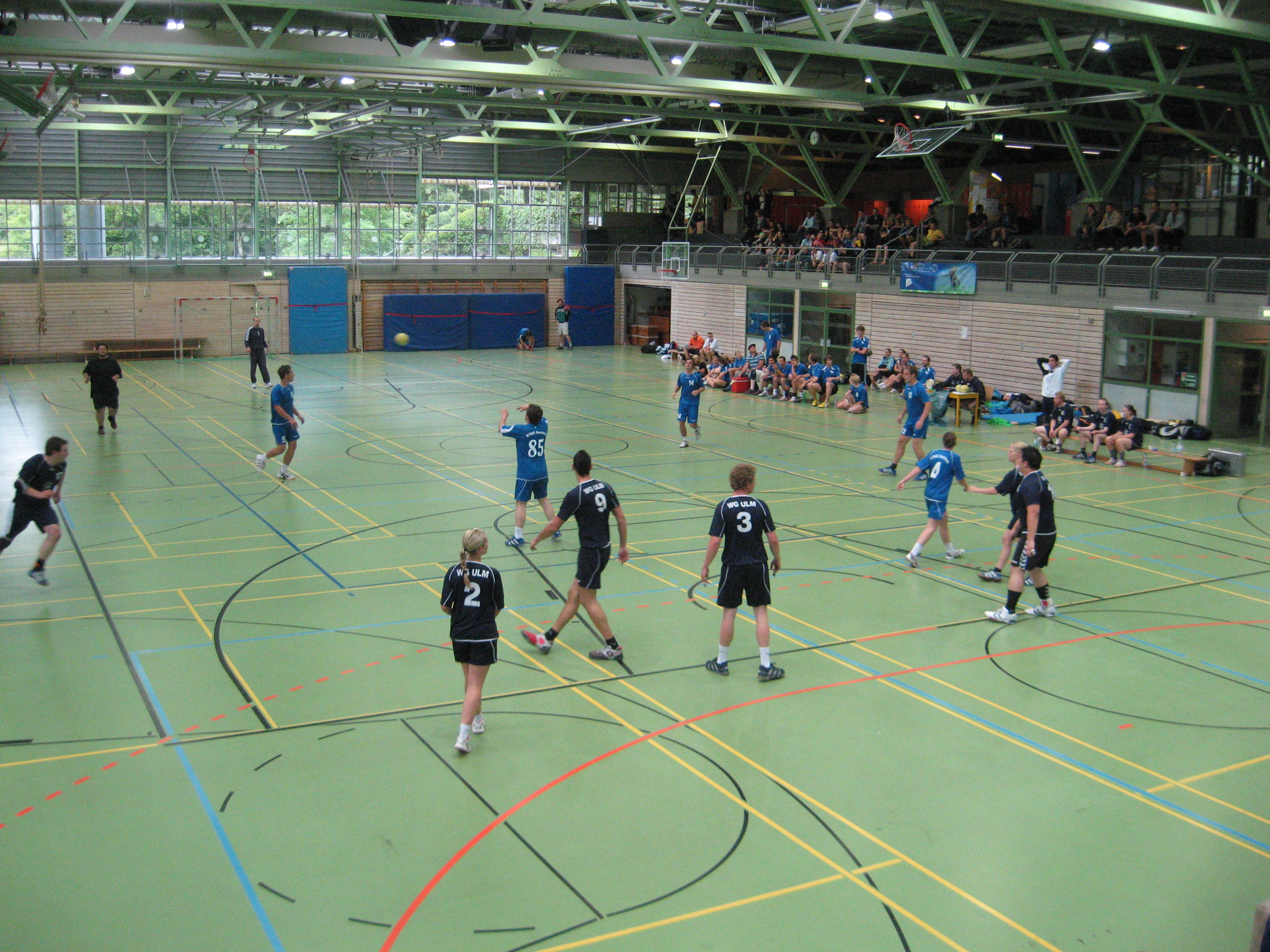 Handball-Mixed-Tournament at the 4th Eurokonstantia, the international sporttournament of the university sportscentre Konstanz